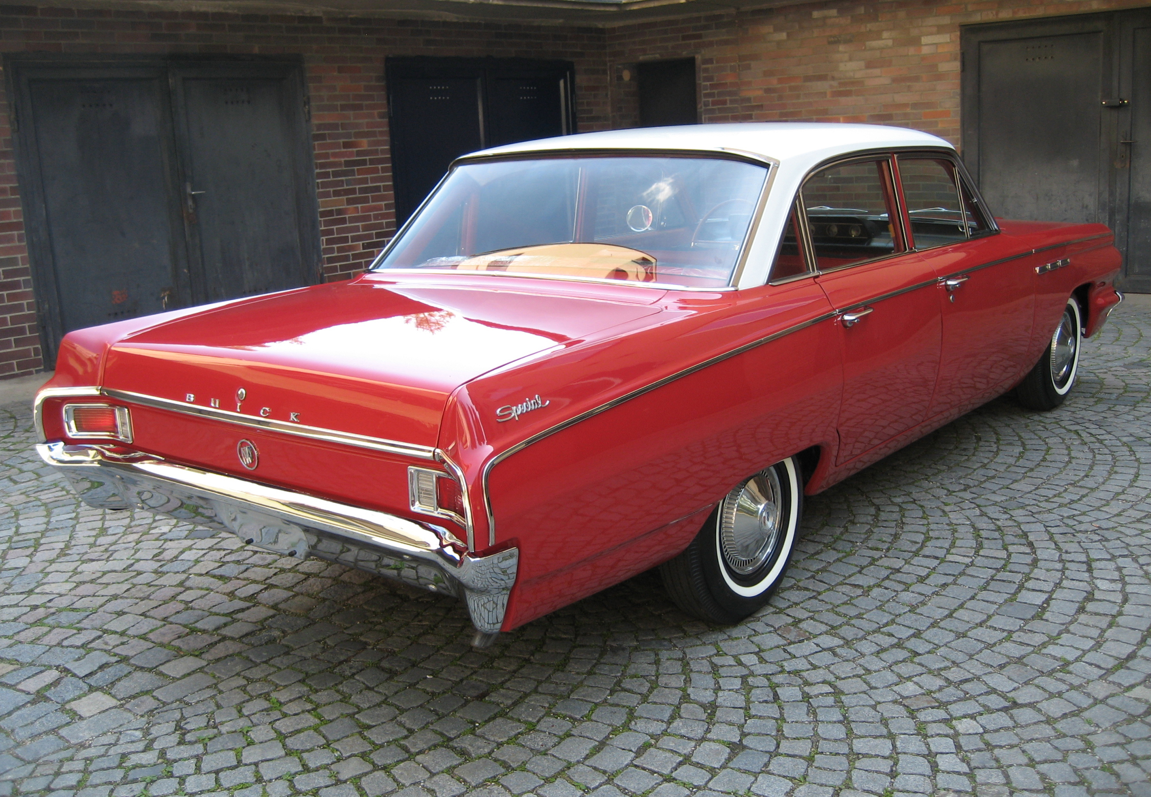 1963 Buick Special Deluxe with factory 4-speed manual transmission